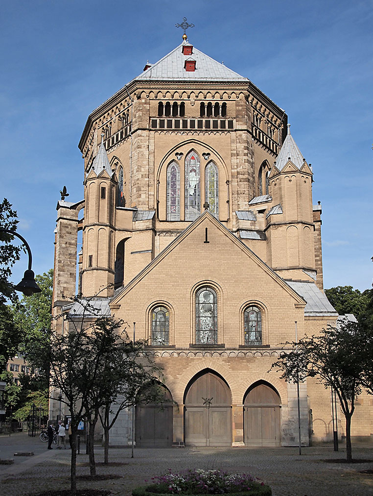 St. Gereon, Romanesque church in Cologne, Germany (O6237913-vL3)